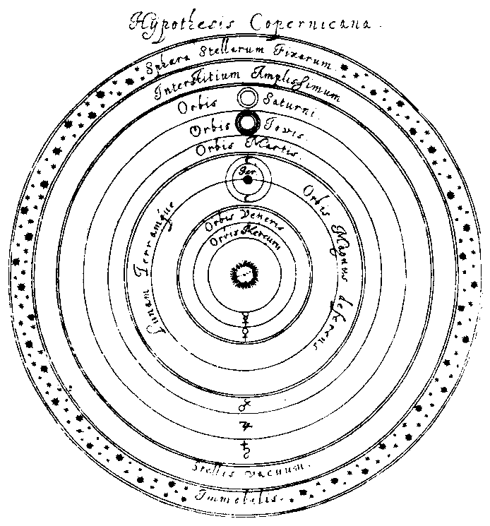 Hypothesis Copernicana.